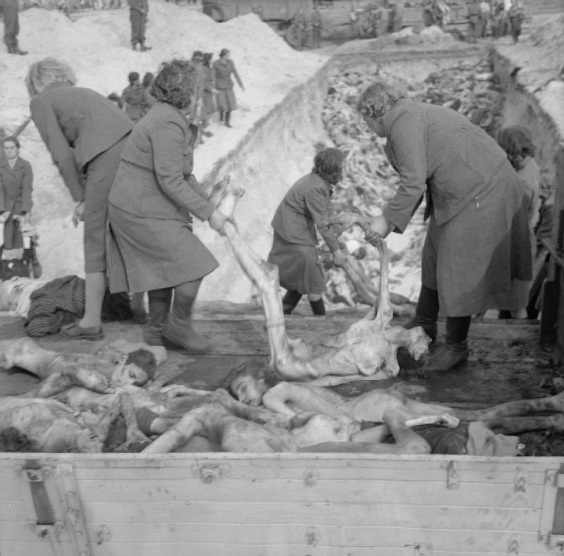 The Liberation of Bergen-belsen Concentration Camp, April 1945 Women SS camp guards remove bodies from lorries and carry them to the mass grave.